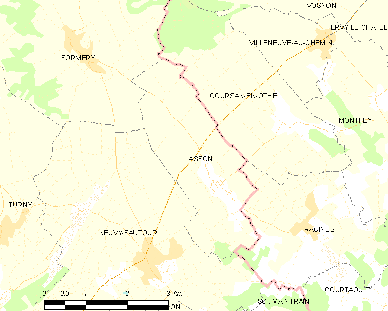 Map of French municipality Lasson